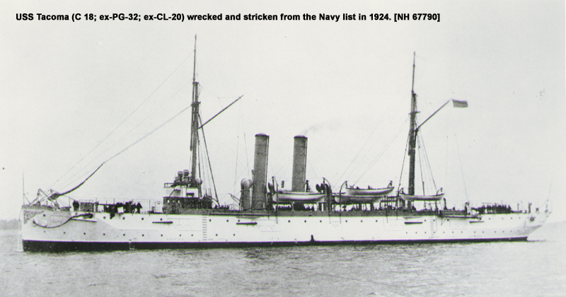 Photo from US Naval Historical Center